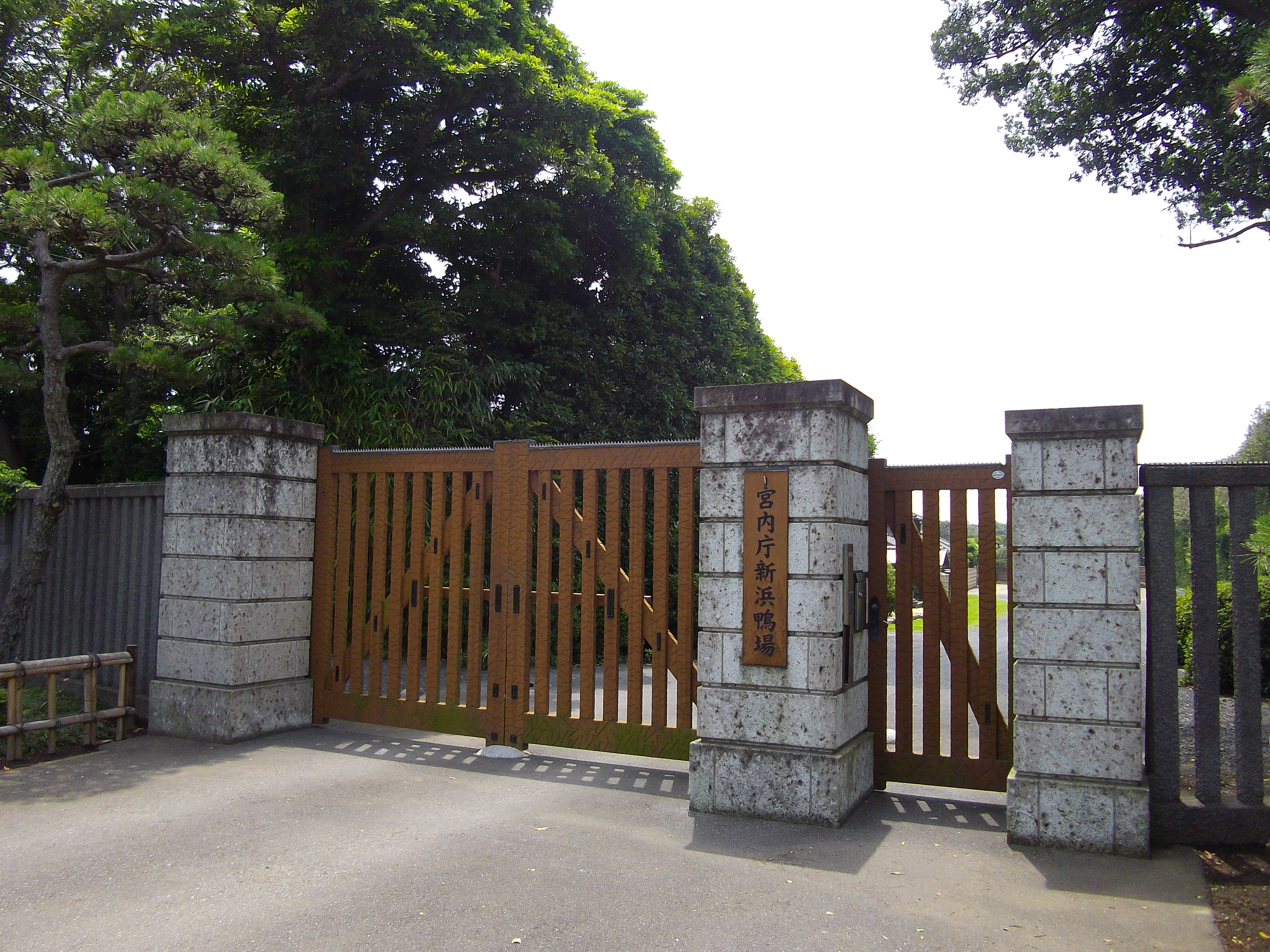 Gate of the Shinhama Imperial Wild Duck Preserves in Ichikawa City, Chiba Prefecture, Japan